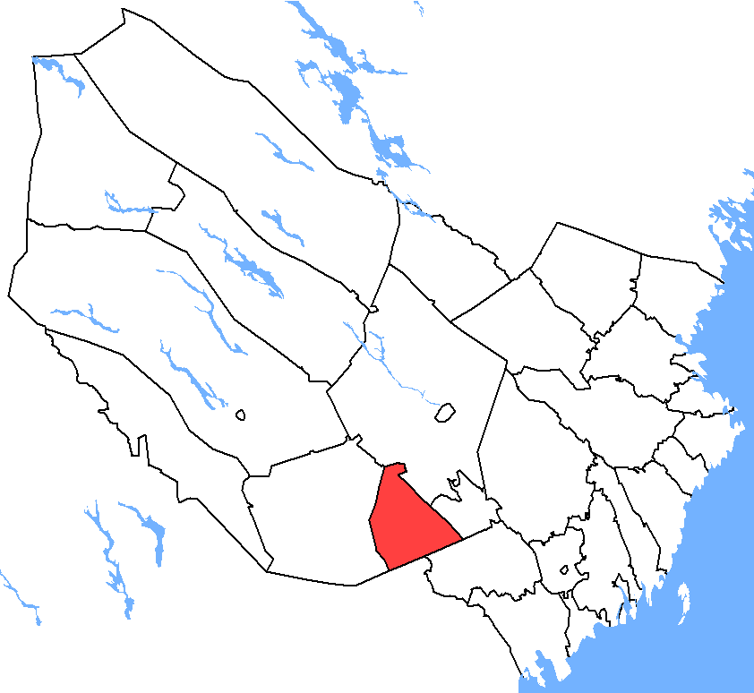 Fredrika municipality of Västerbotten County 1952.